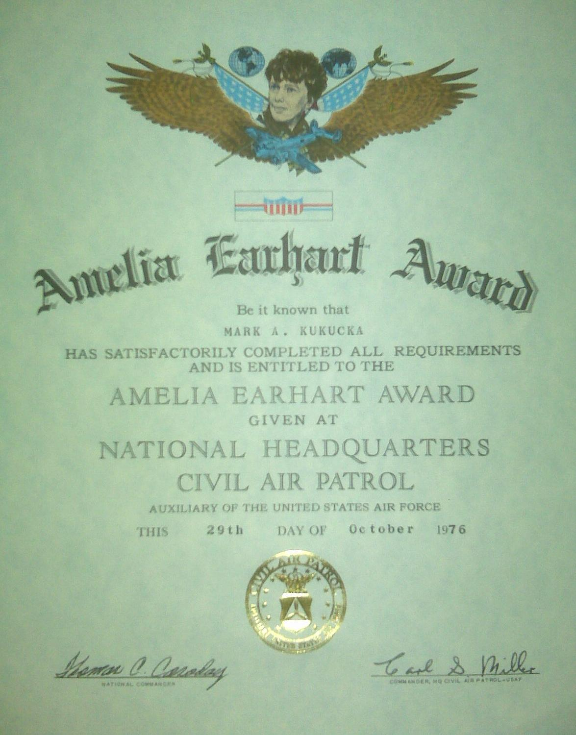 CAP Amelia Earhart Award presented to Mark A. Kukucka